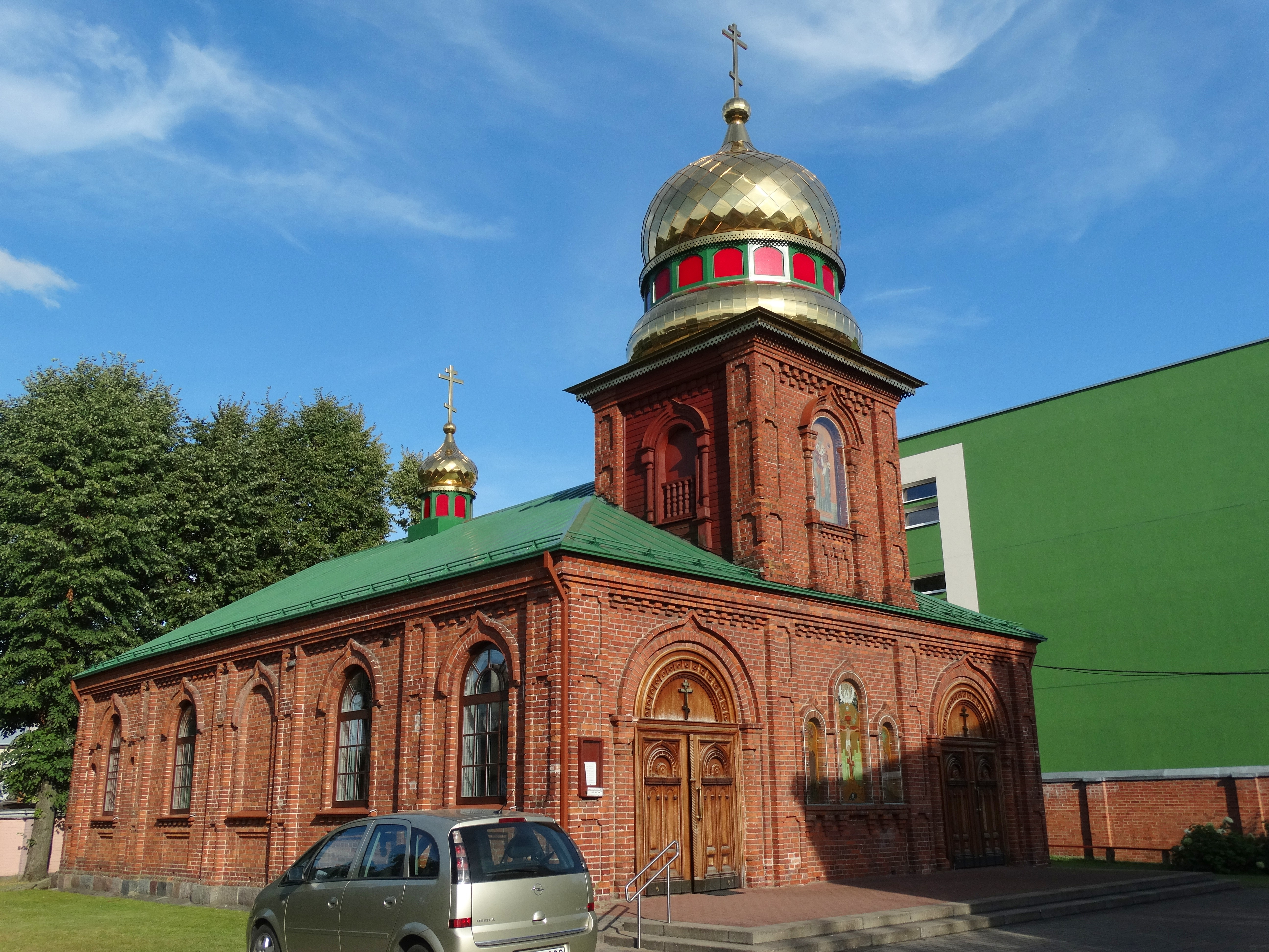 Orthodox Church of Old Believers in Kaunas, Lithuania